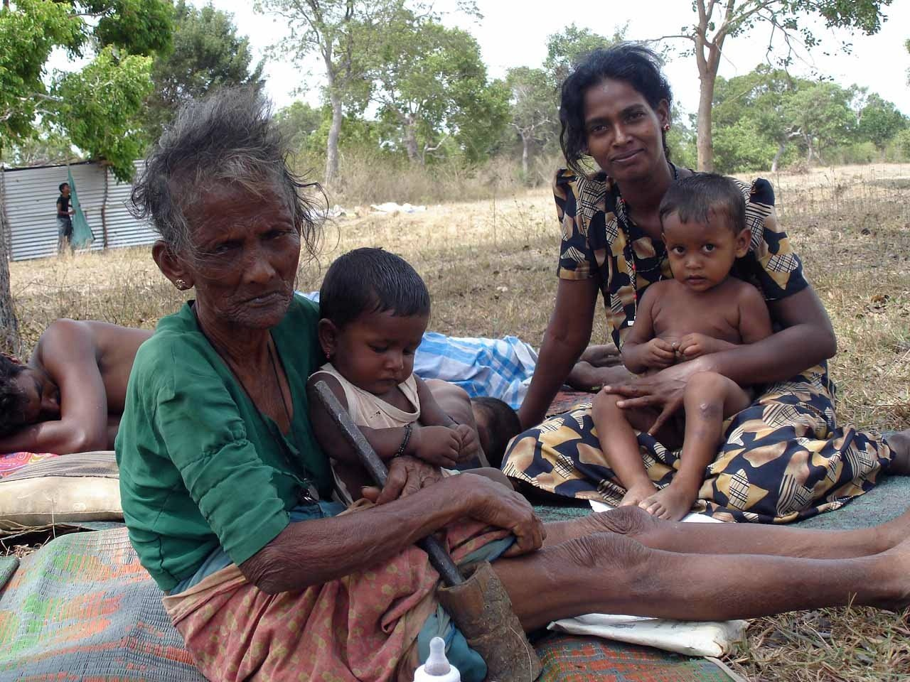 Three generations of Tamil refugees. Caption by the uploader: internally displaced due to Sri lanka govt bombing & shelling